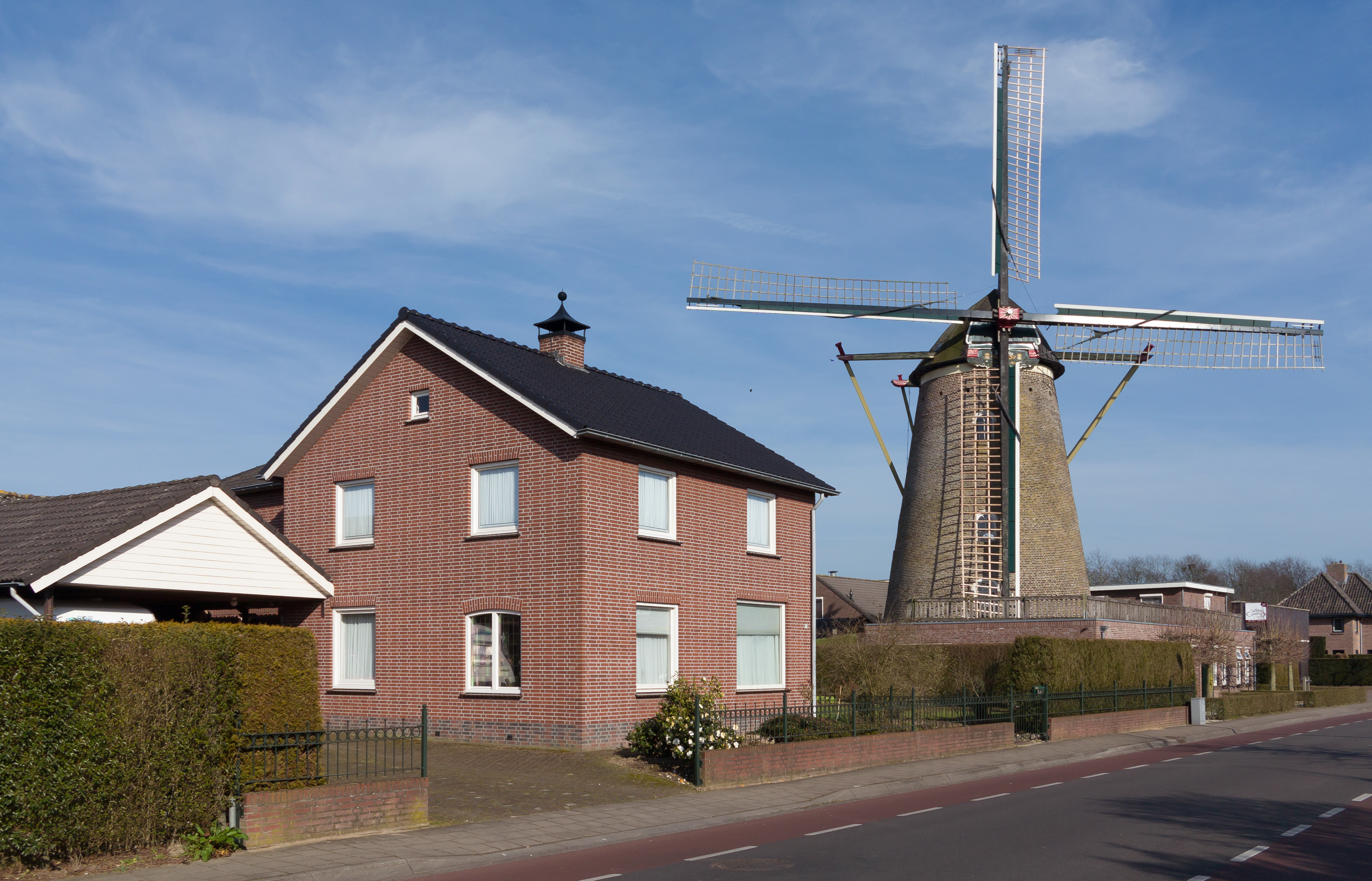 Gennep, windmill: korenmolen De Reus